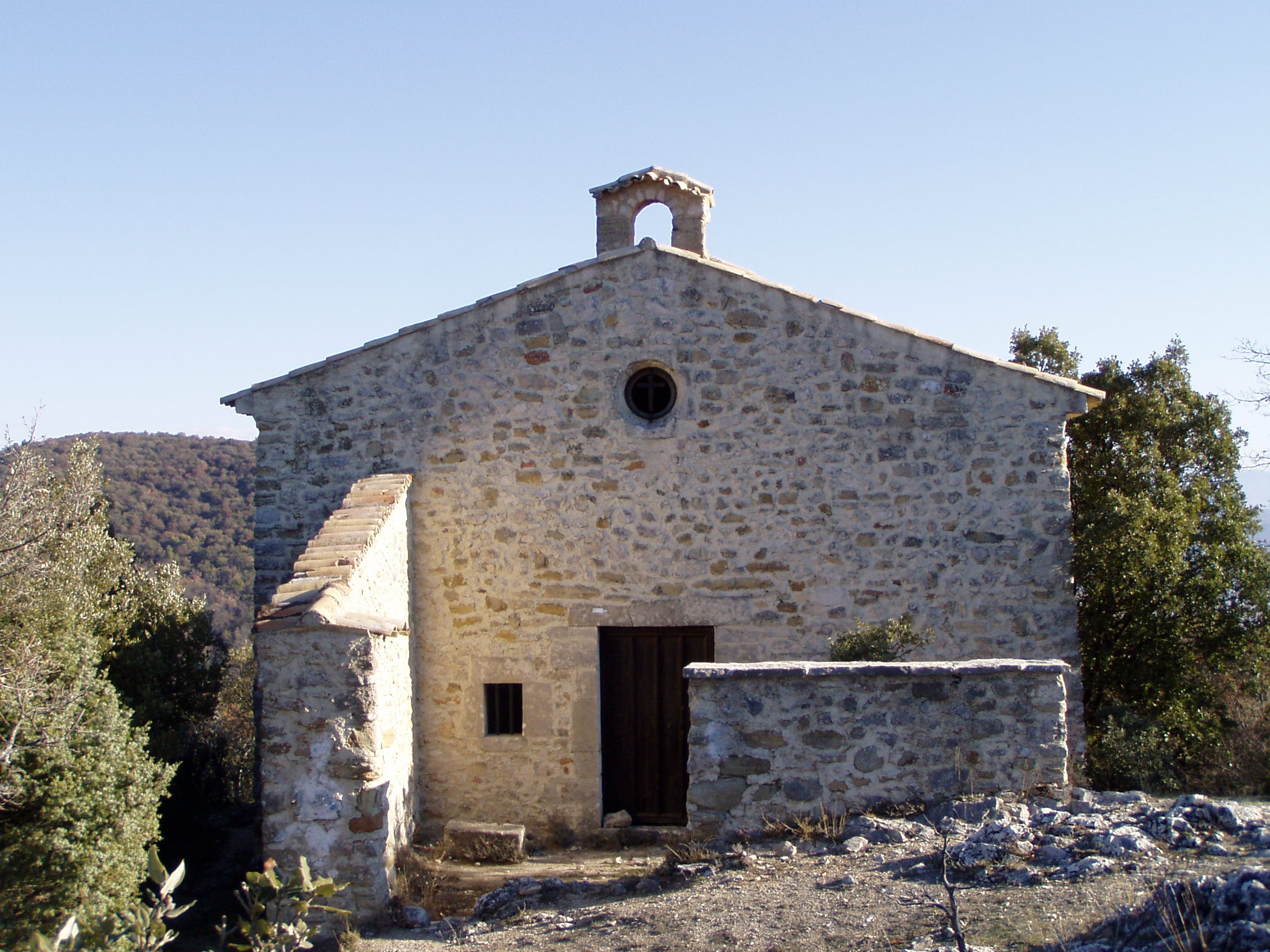 Chapel of Villeneuve